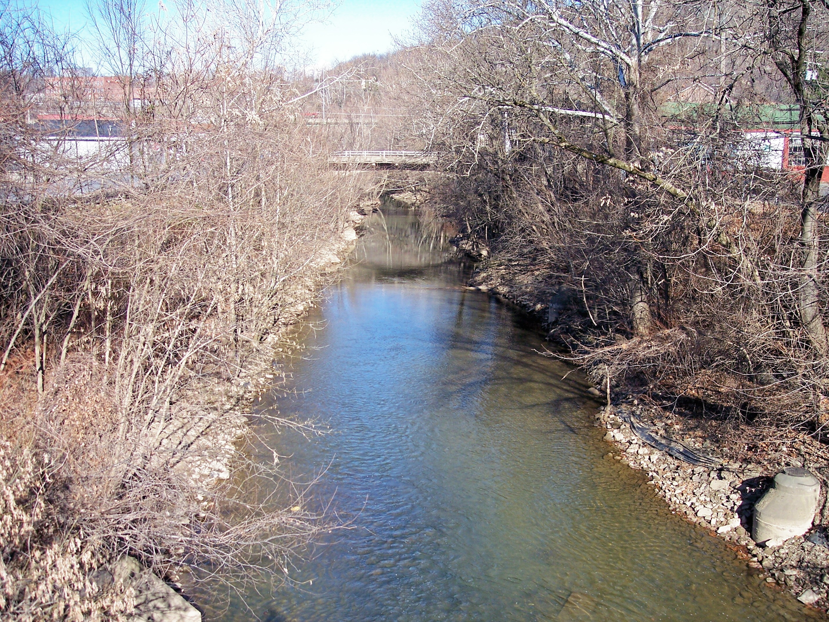 Elk Creek as viewed upstream from Main Street in Clarksburg, West Virginia